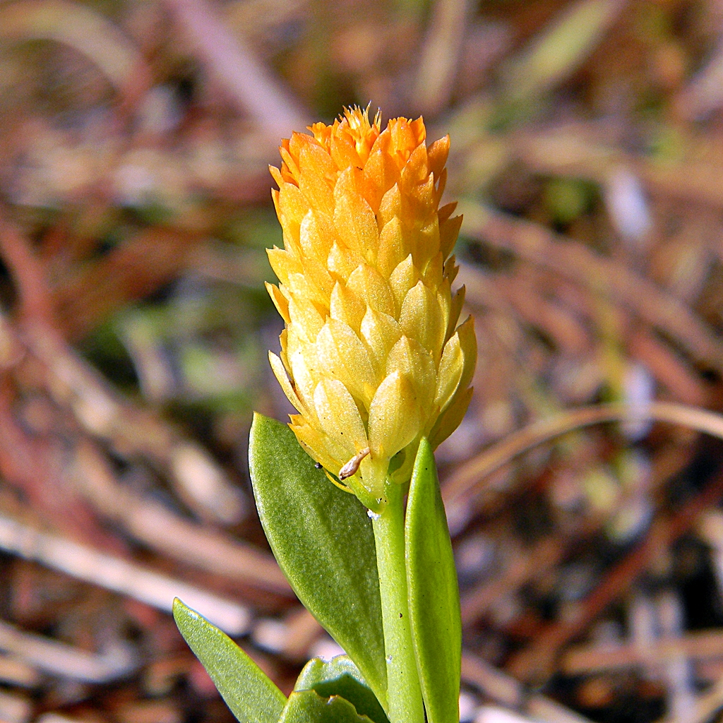 Polygala lutea — in the pine flatwoods, taken from ground level. Jonathan Dickinson State Park, Martin County, Florida.